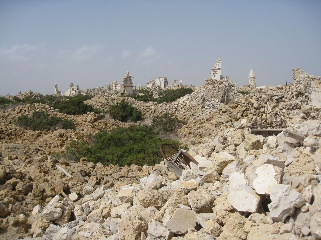 The city of Suakin/Sudan destroied within a period of 50 years